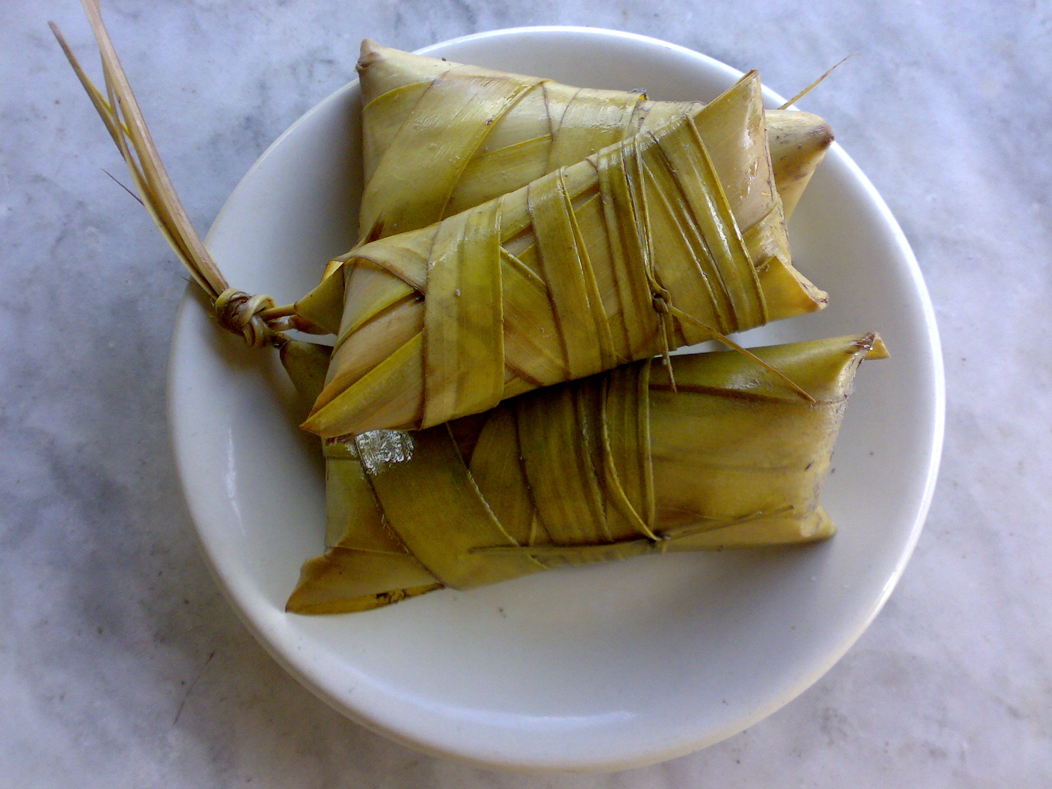 Ibos, is an Illonggo term of Suman from the Visayas in the Philippines.